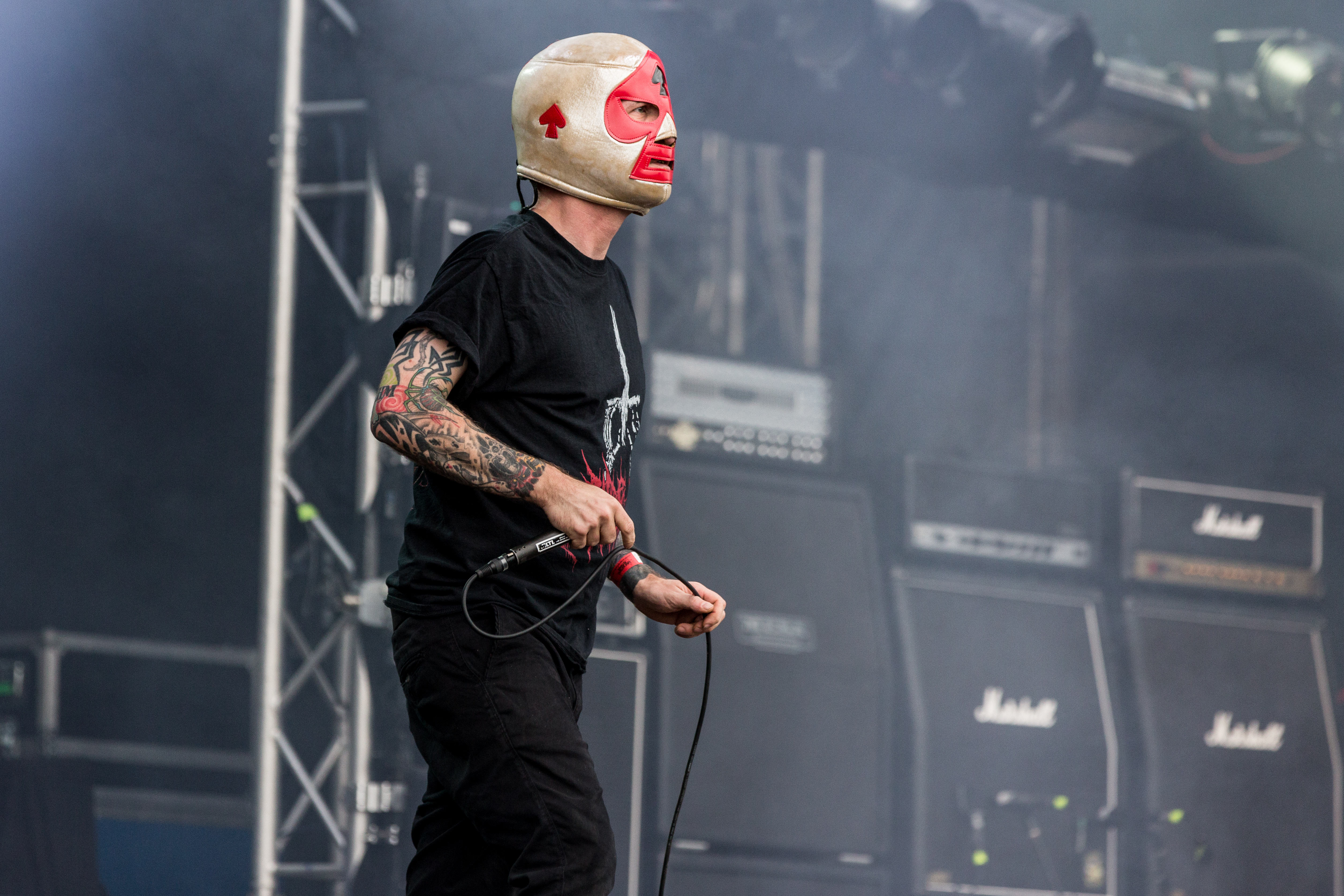 The German goregrind band GUT at the Party.San Metal Open Air 2017 in Obermehler-Schlotheim/Germany.